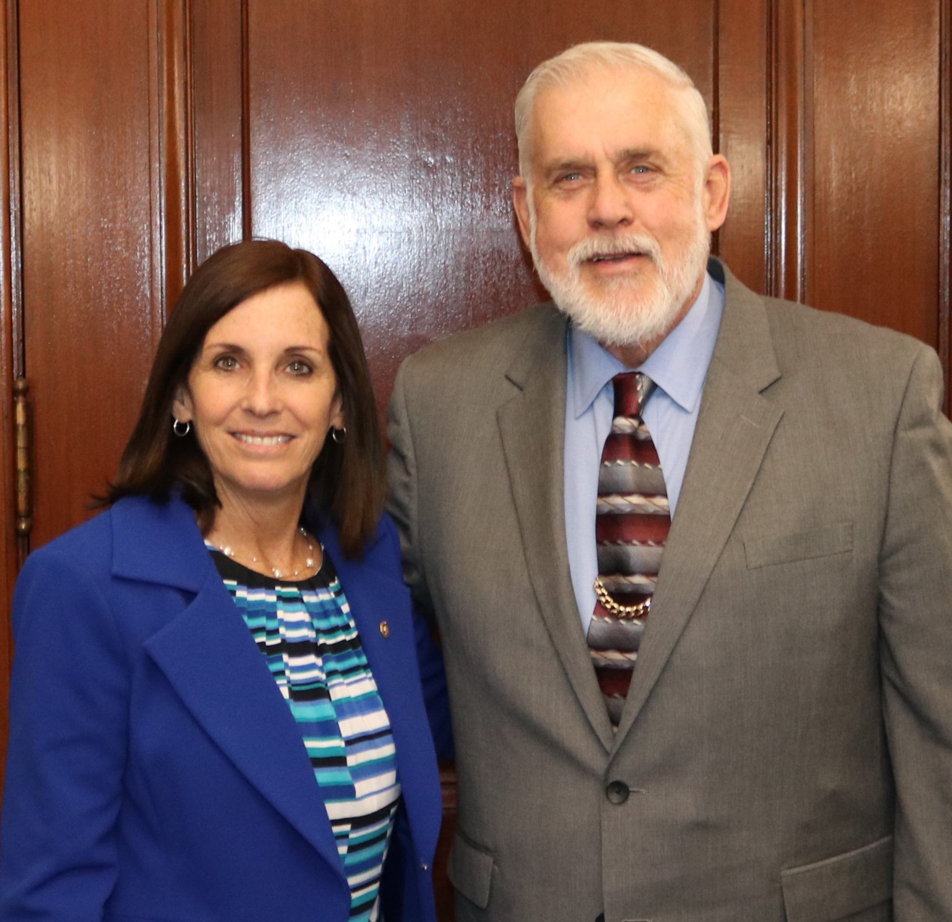 Companies know @GlendaleAZ is open for business! Thanks to @MayorWeiers for stopping by my office & updating me on the amazing growth you're seeing in your city.